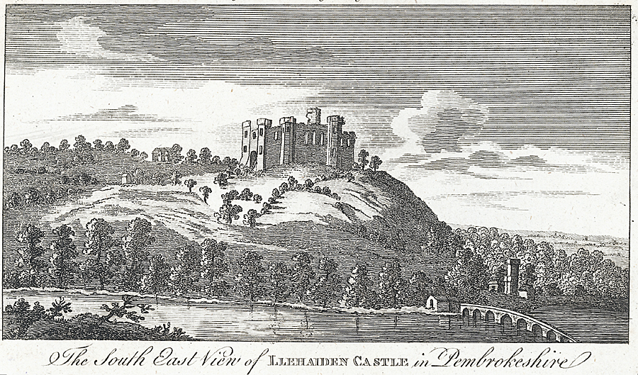 Bridge, tower below the Castle.